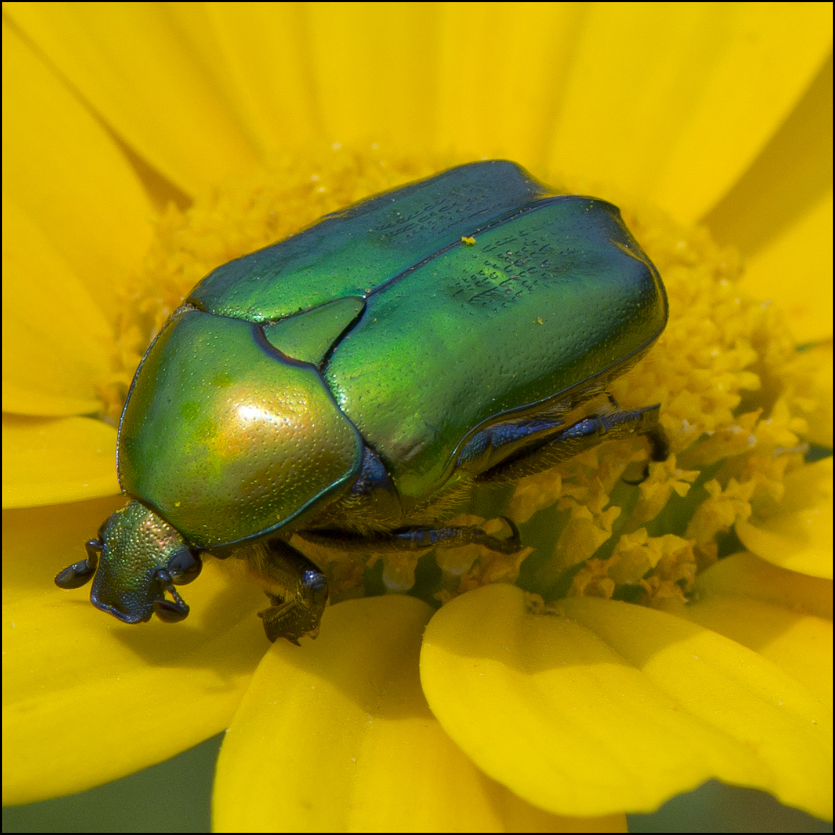 Protaetia cuprea ignicollis, Neve Hadarim, Rishon LeZion, Israel, 2019-04-04